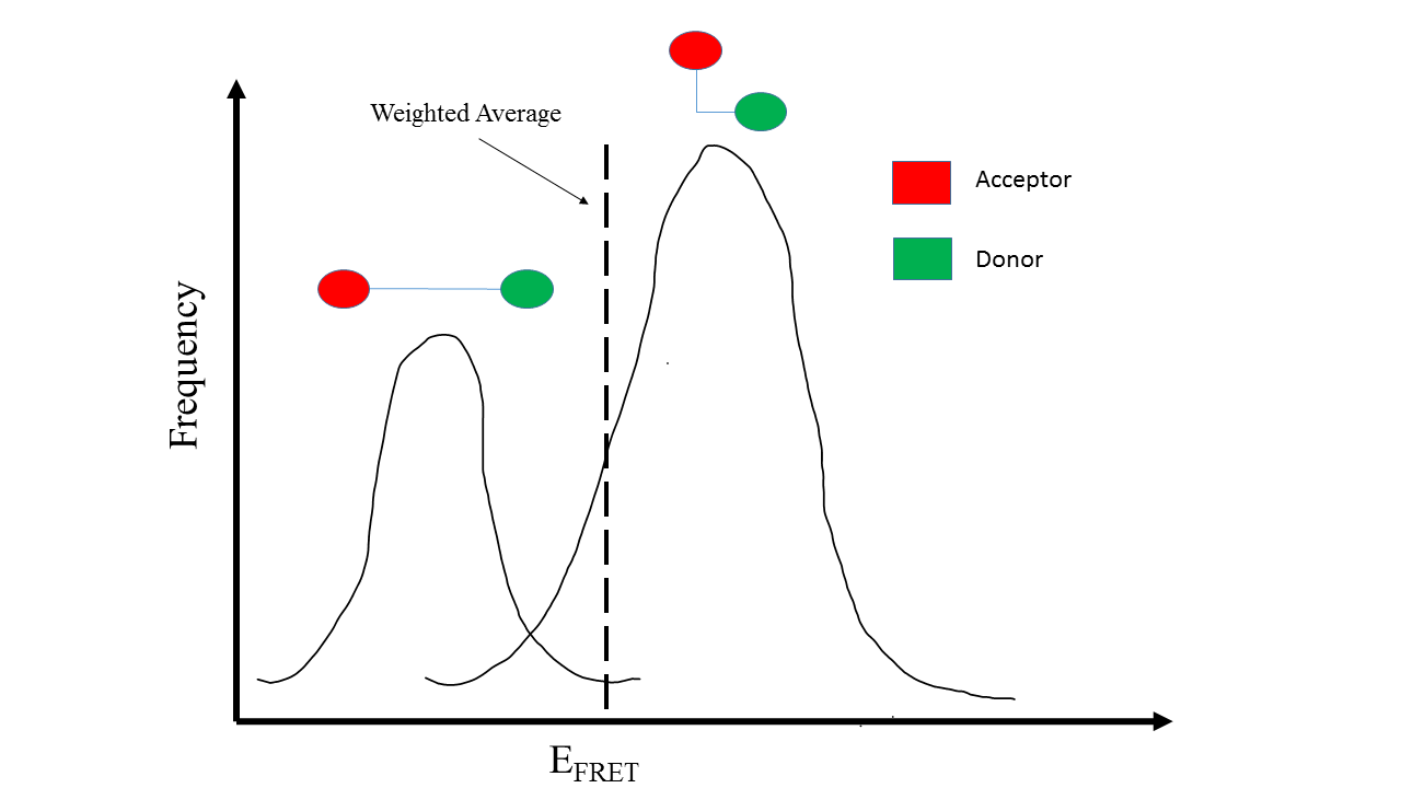 smFRET allows visualization of distinct conformations in a population